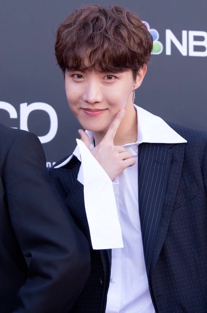 J-Hope on the Billboard Music Awards red carpet, 1 May 2019